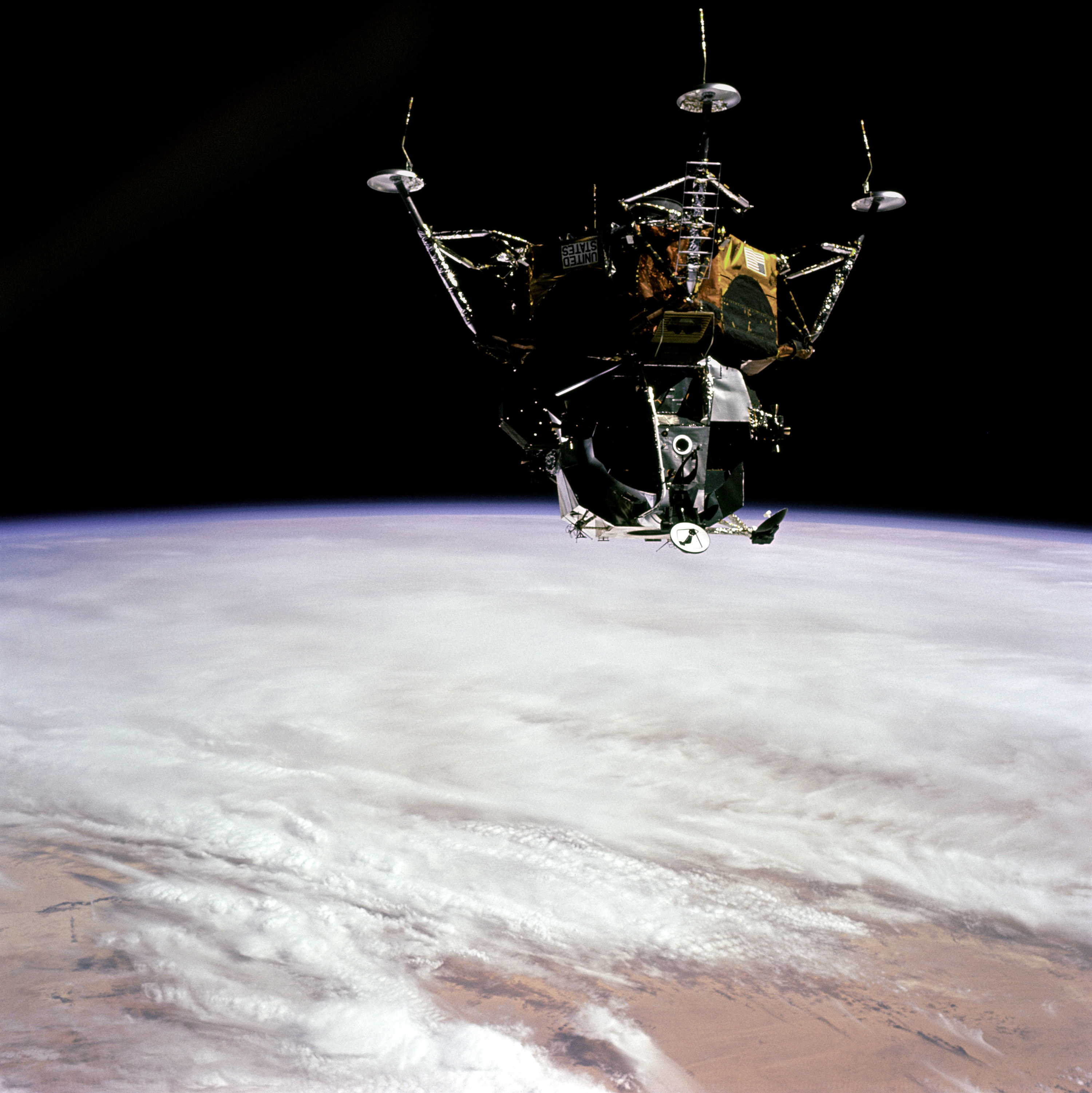 View of the Apollo 9 Lunar Module "Spider" in a lunar landing configuration photographed by Command Module pilot David Scott inside the Command/Service Module "Gumdrop" on the fifth day of the Apollo 9 earth-orbital mission. The landing gear on "Spider" has been deployed. lunar surface probes (sensors) extend out from the landing gear foot pads. Inside the "Spider" were astronauts James A. McDivitt, Apollo 9 Commander; and Russell L. Schweickart, Lunar Module pilot.